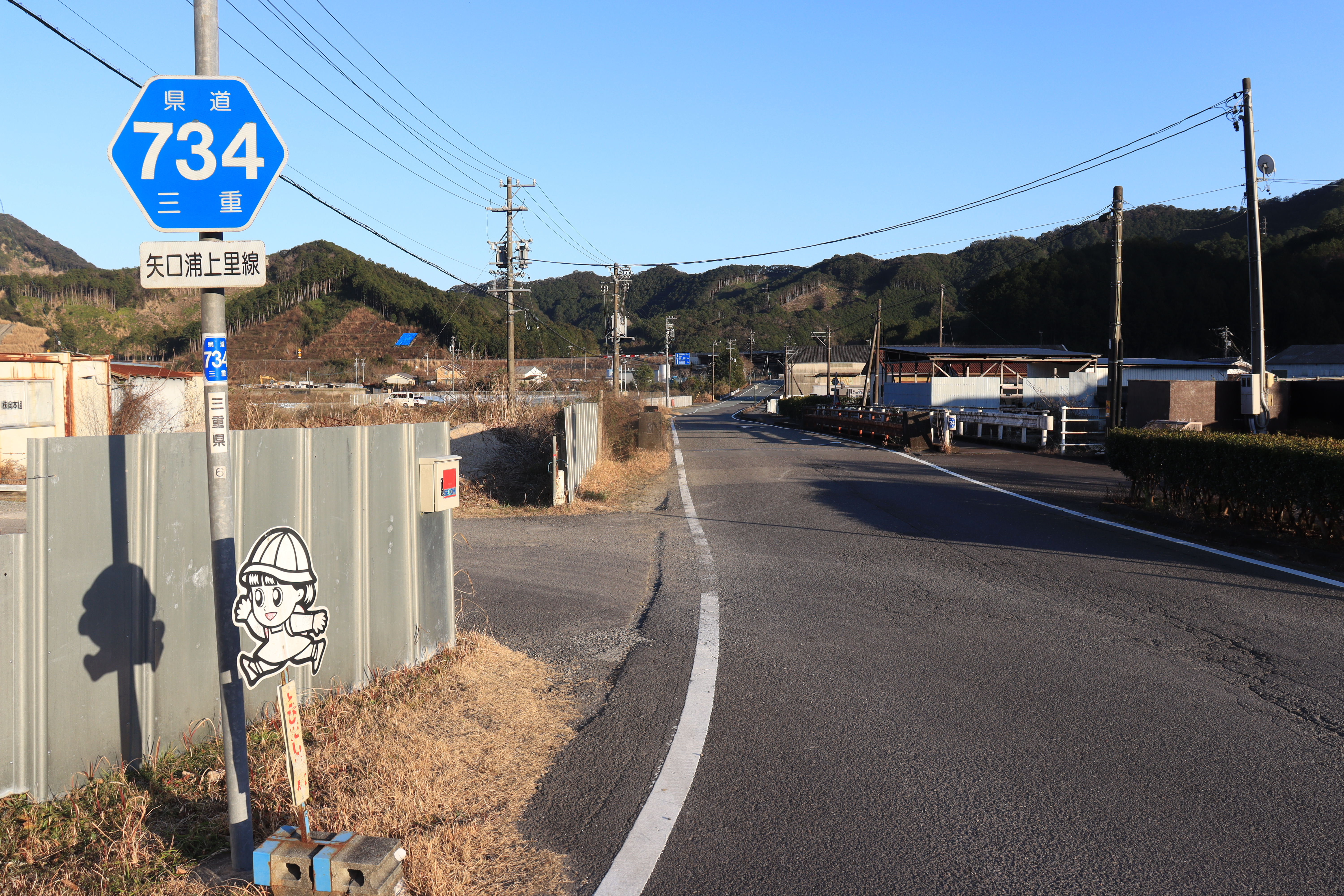 Mie Prefectural Road Route 734 in Kamizato, Kihoku, Mie Prefecture, Japan.